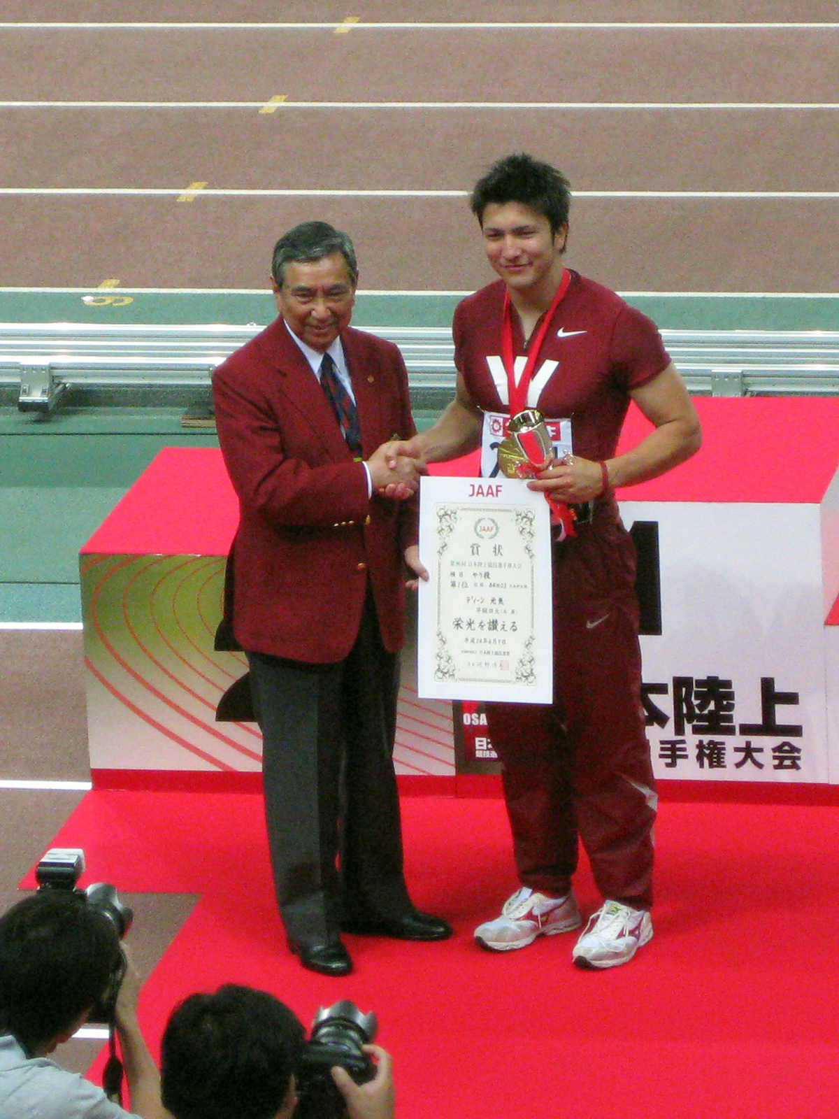 Genki Dean congratulated by Yohei Kono during 2012 Japan Championships in Athletics.